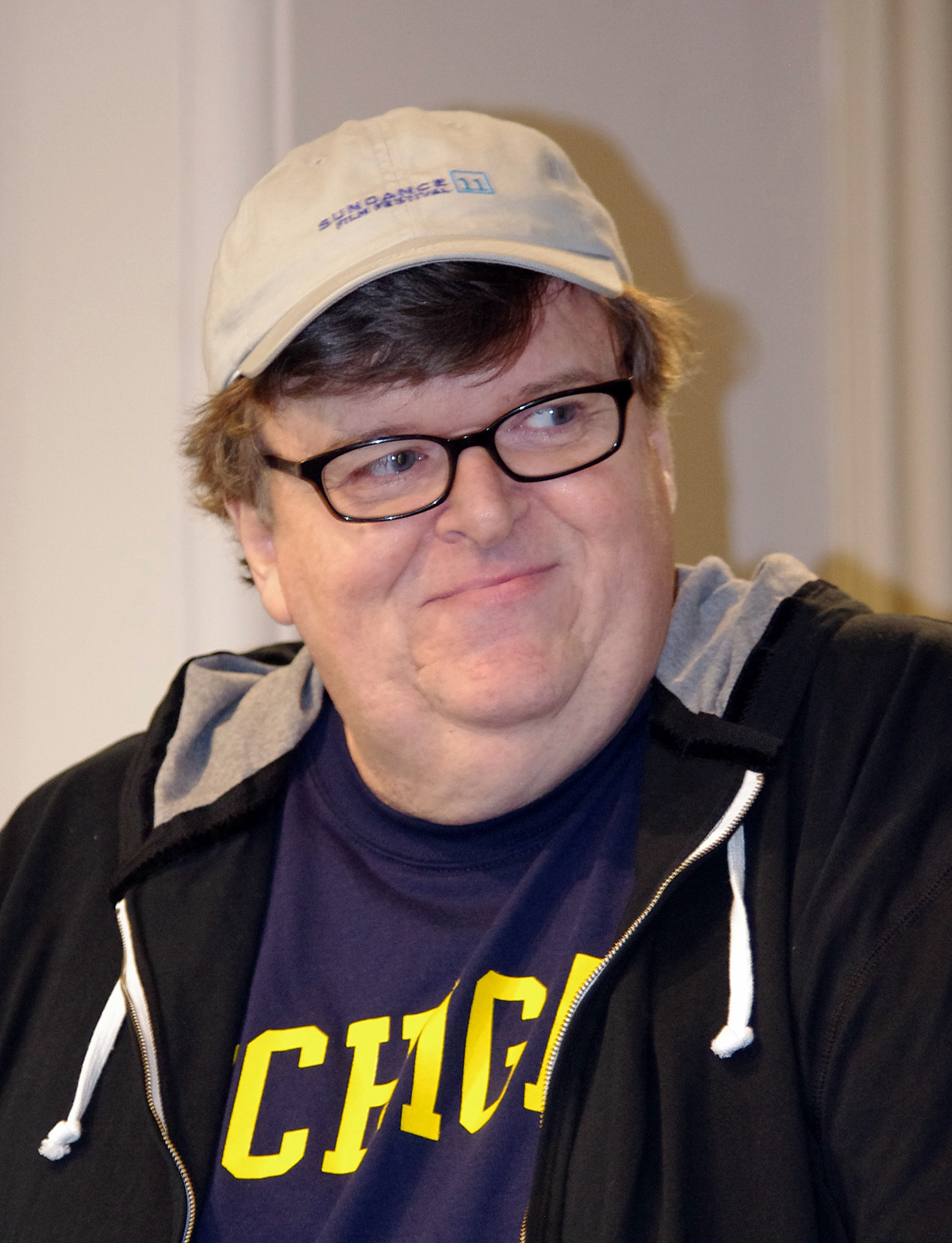 Michael Moore in New York City's Union Square Barnes & Noble to discuss his book Here Comes Trouble.